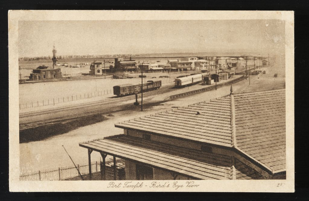 Aerial shot of two railroad lines